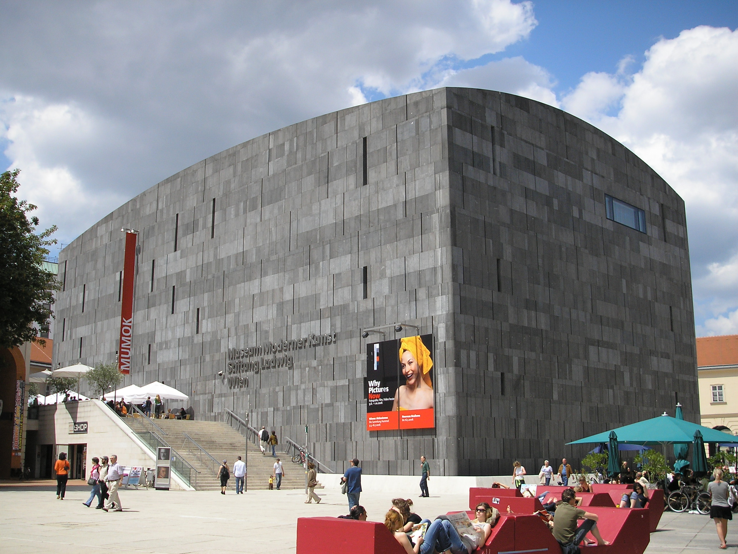 Austria, Vienna, Museum Moderner Kunst Stiftung Ludwig Wien